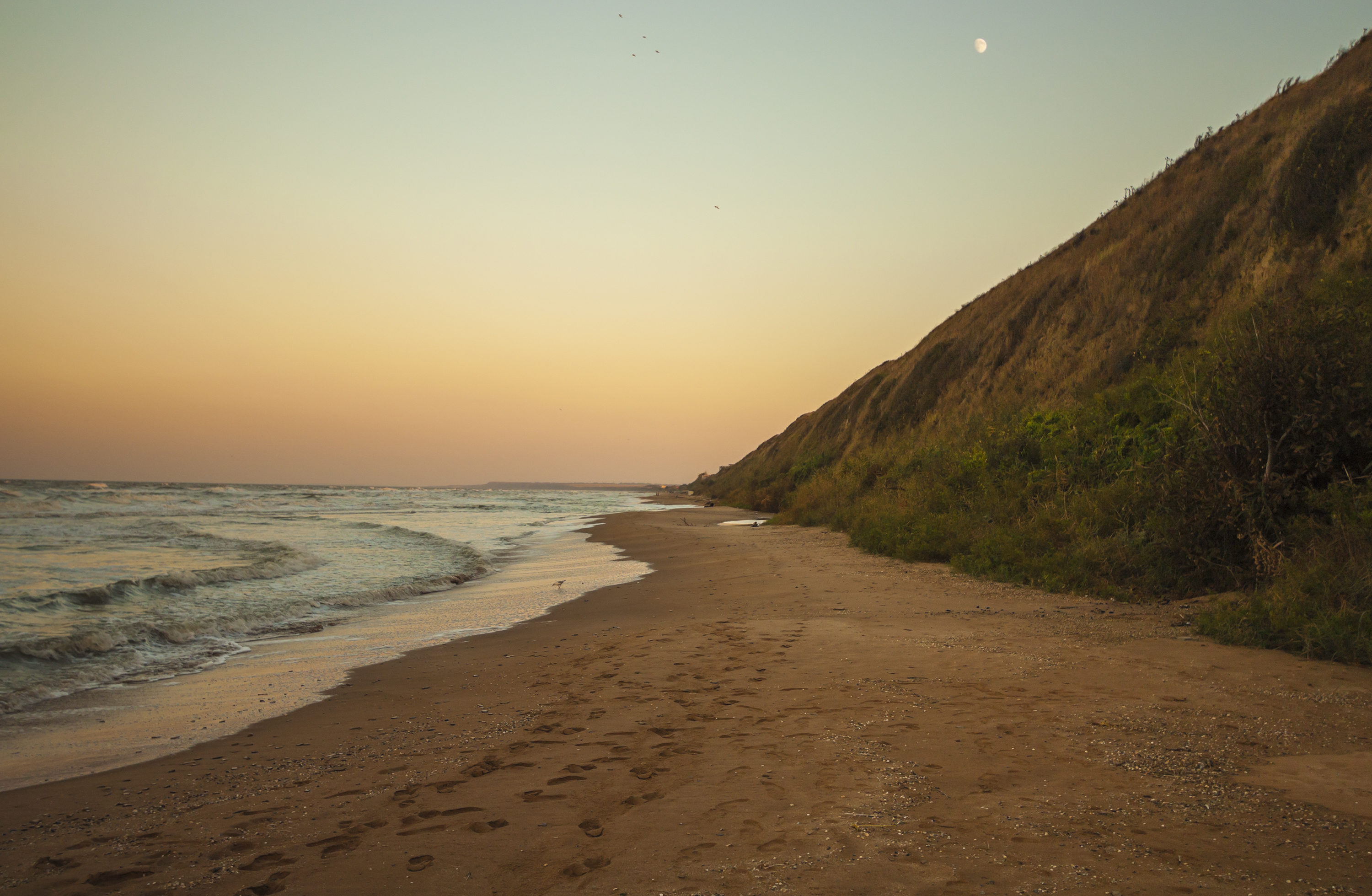 Coast of the Sea of Azov